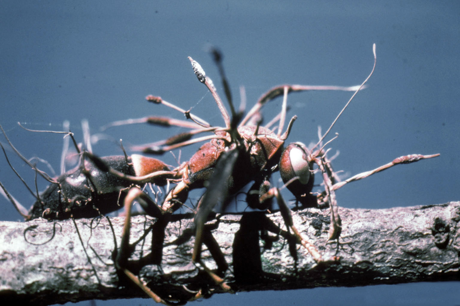 Erich G. Vallery, USDA Forest Service - SRS-4552, United States parasitized by the fungus Cordyceps, order Clavicipitales